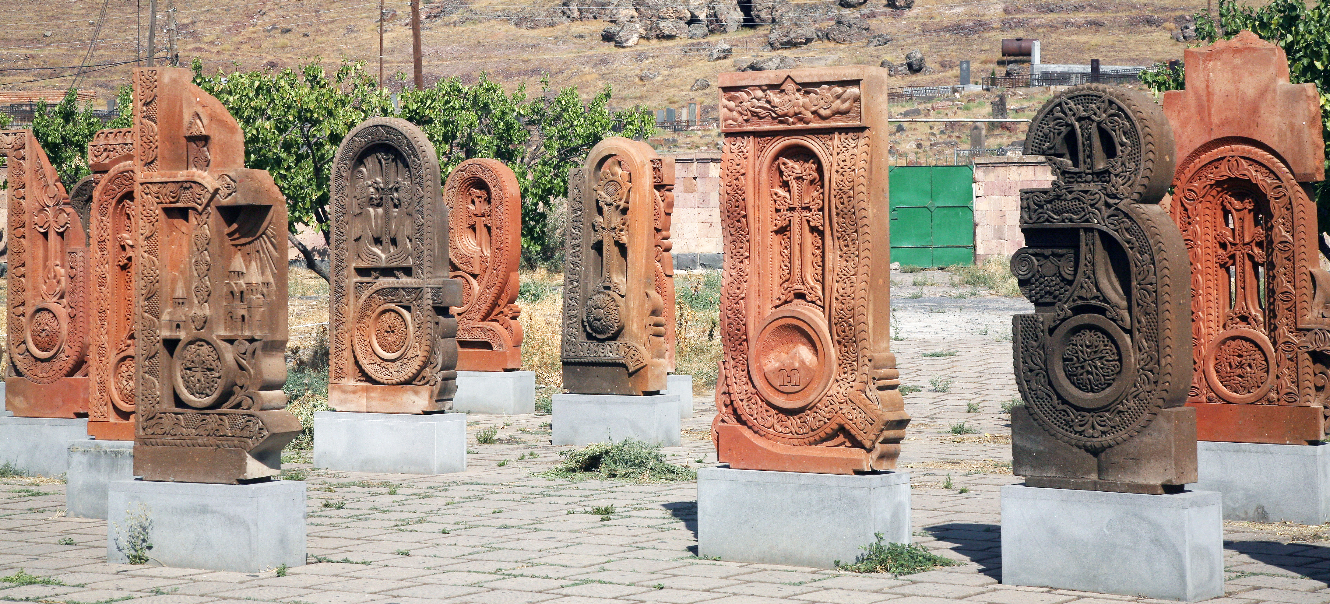 Armenian letters cross-stones, S. Mesrop Mashtots church, Oshakan, Armenia